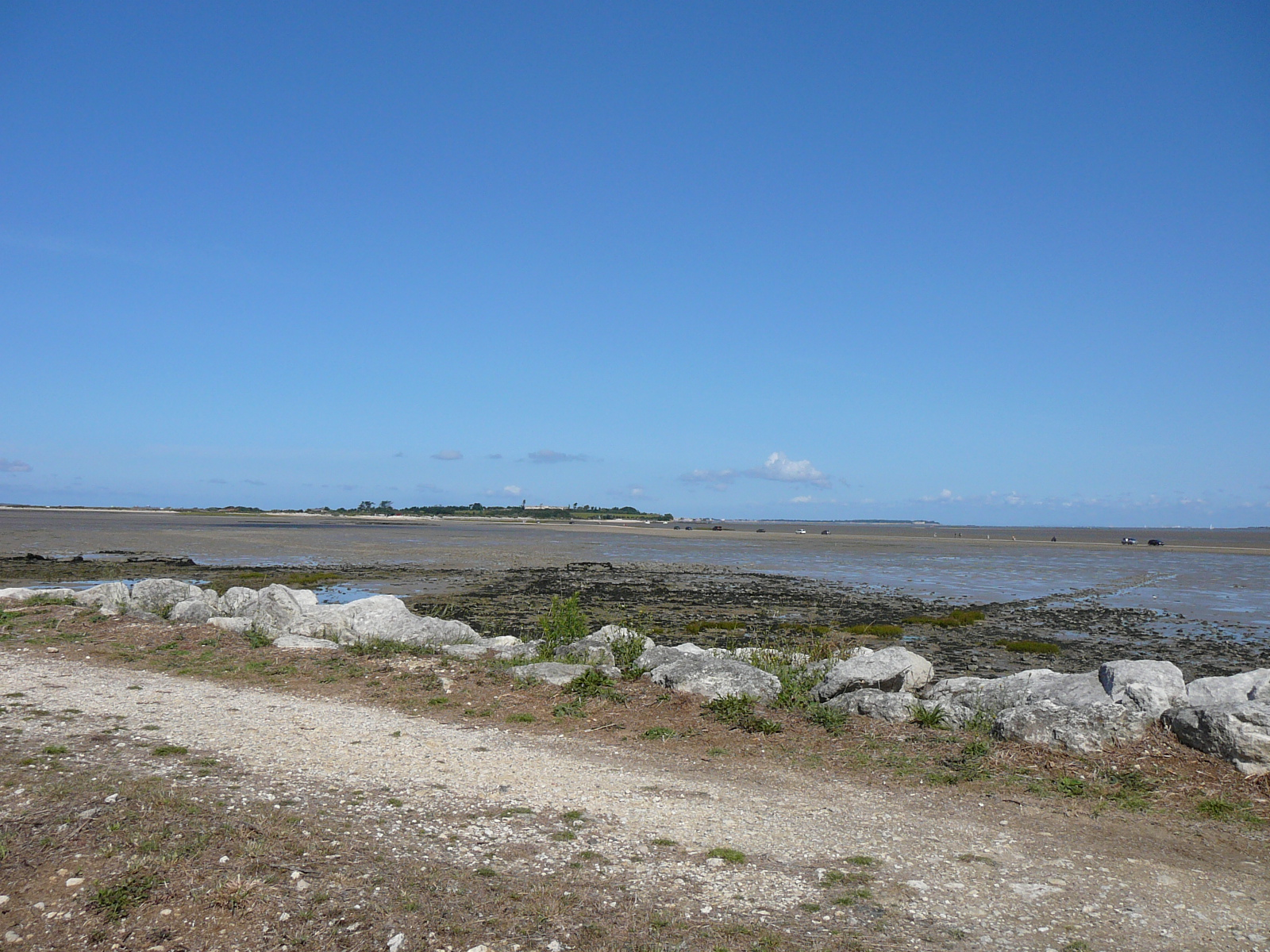 "Passe aux boeufs", joining Port-des-Barques to Île Madame island. Charente-Maritime (17), Poitou-Charentes, France, Europe.